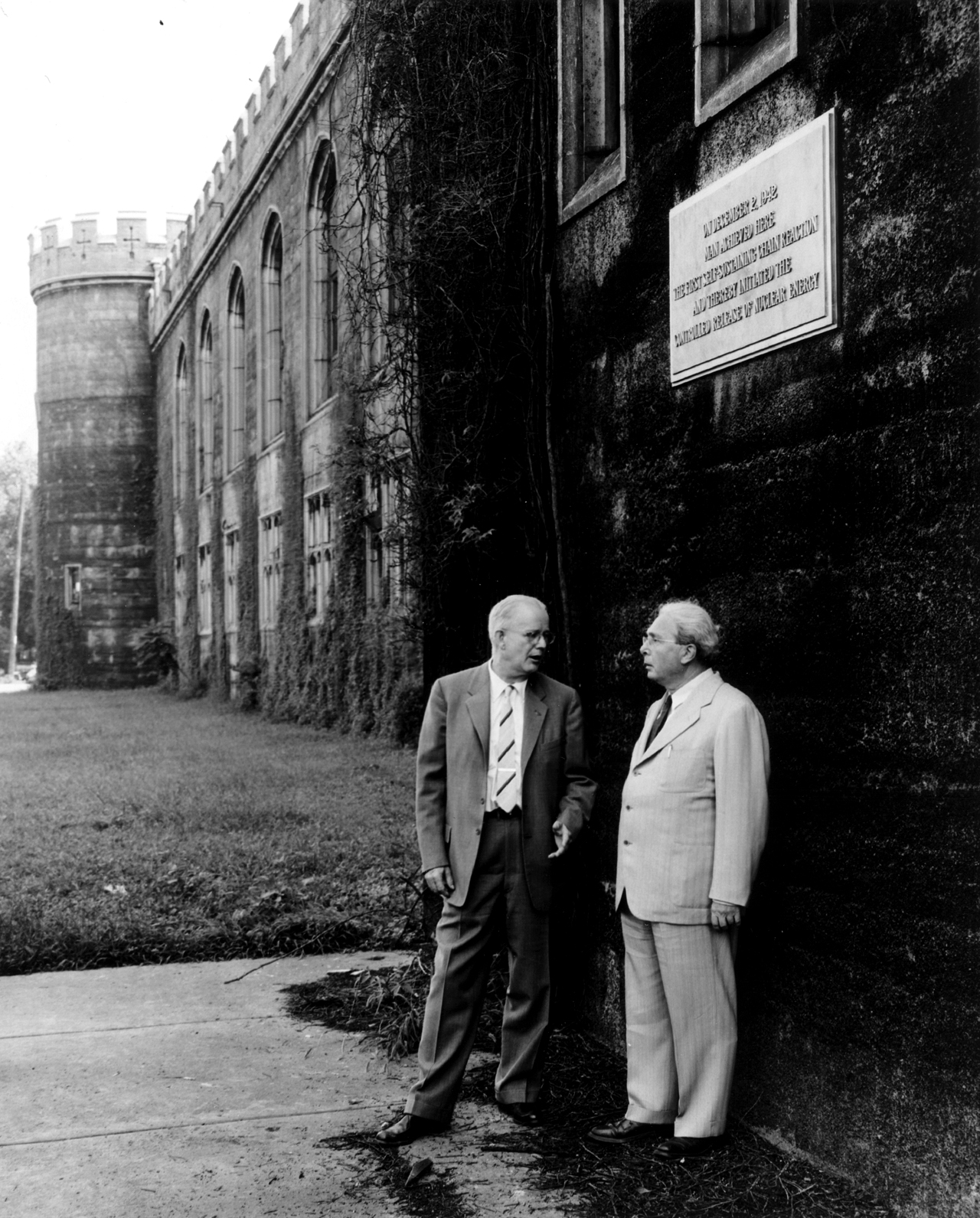 "Dr. Norman Hilberry (left) and Dr. Leo Szilard stand beside the site where the world's first nuclear reactor was built during World War II. Both worked with the late Dr. Enrico Fermi in achieving the first self-sustaining chain reaction in nuclear energy on December 2, 1942, at Stagg Field, University of Chicago. c. undated." The plaque reads: ON DECEMBER 2, 1942 MAN ACHIEVED HERE THE FIRST SELF-SUSTAINING CHAIN REACTION AND THEREBY INITIATED THE CONTROLLED RELEASE OF NUCLEAR ENERGY